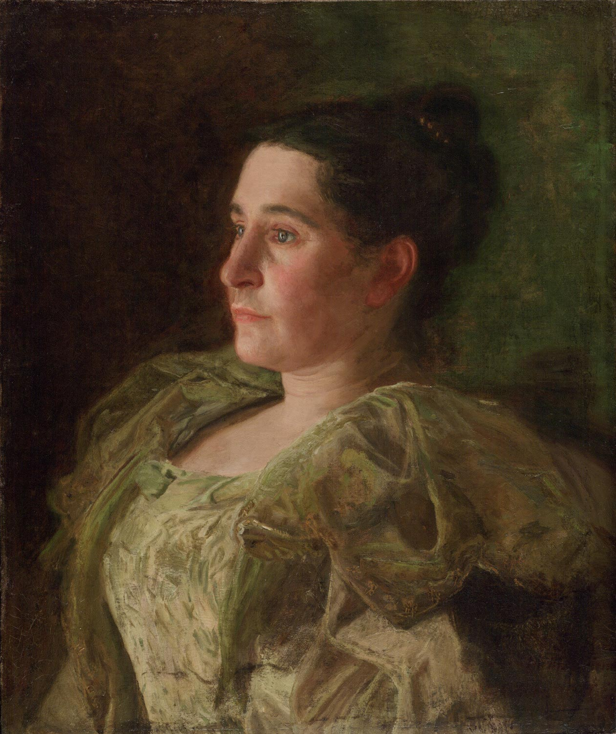 Portrait of Mrs. James Mapes Dodge - Josephine Kern, by Thomas Eakins